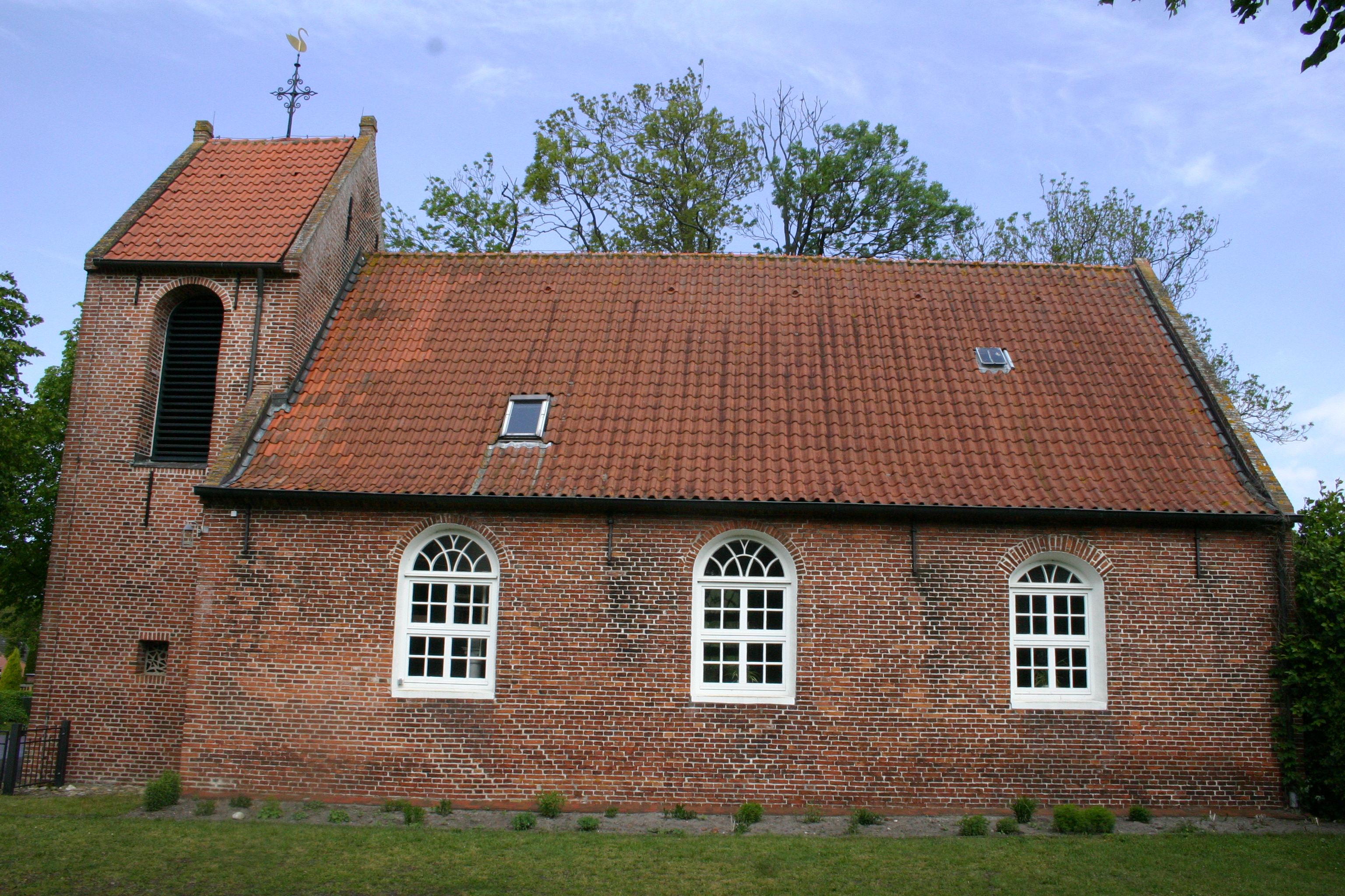 Historic church in Breinermoor, district of Leer, East Frisia, Germany